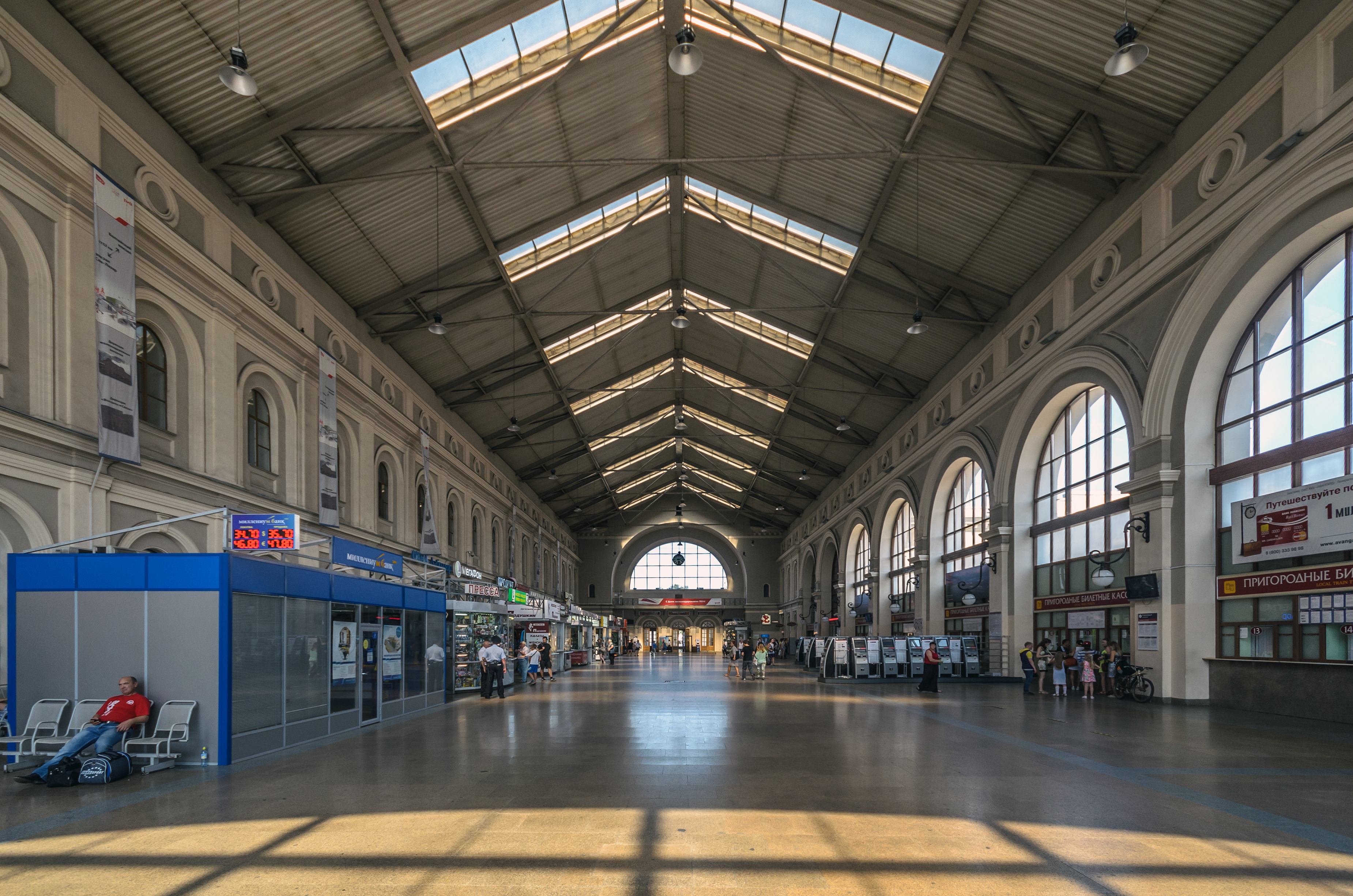 Baltiysky Rail Terminal in Saint Petersburg, Waiting and Ticket Hall